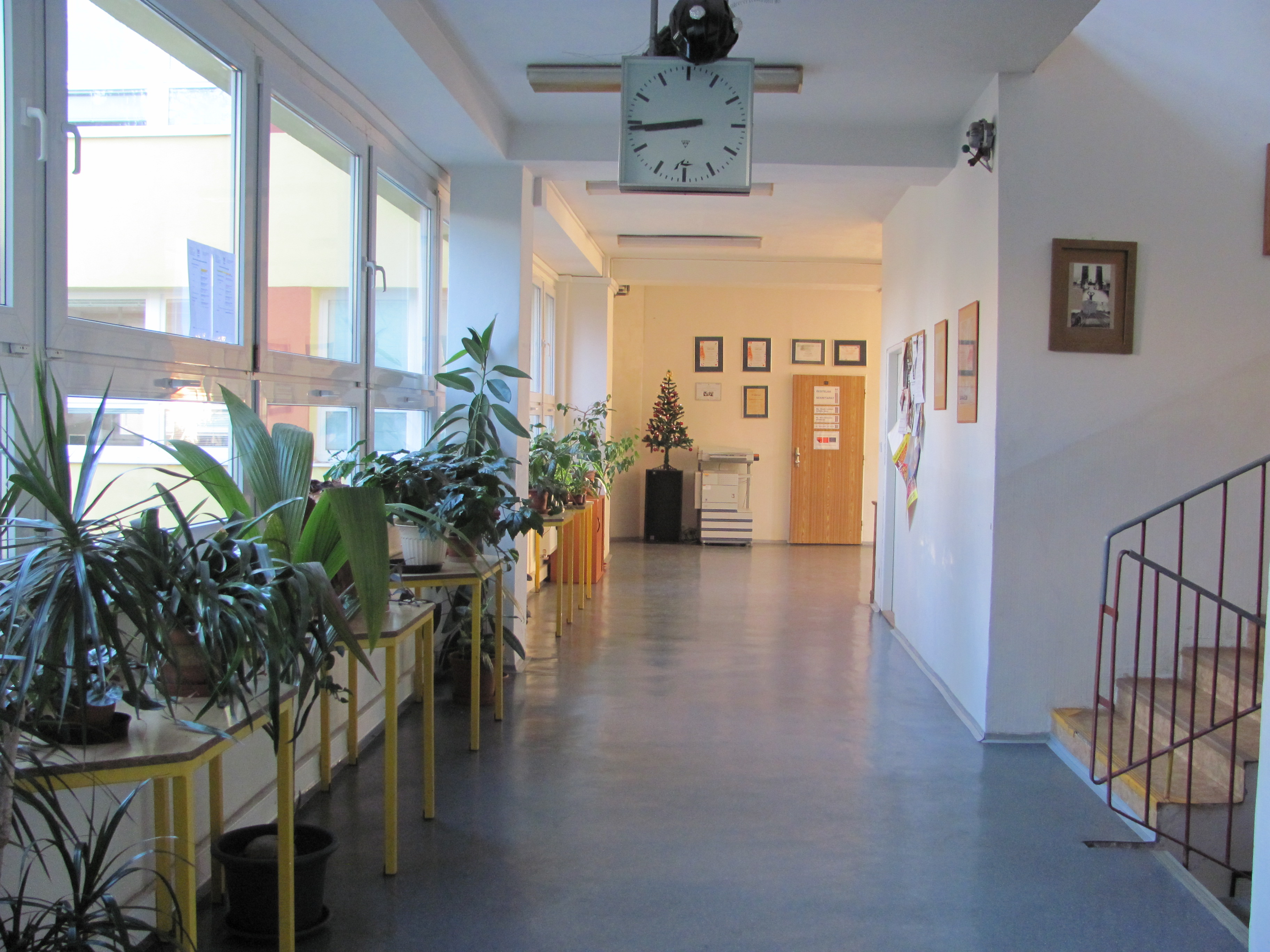 Mensa gymnázium, Prague-Řepy – interior.